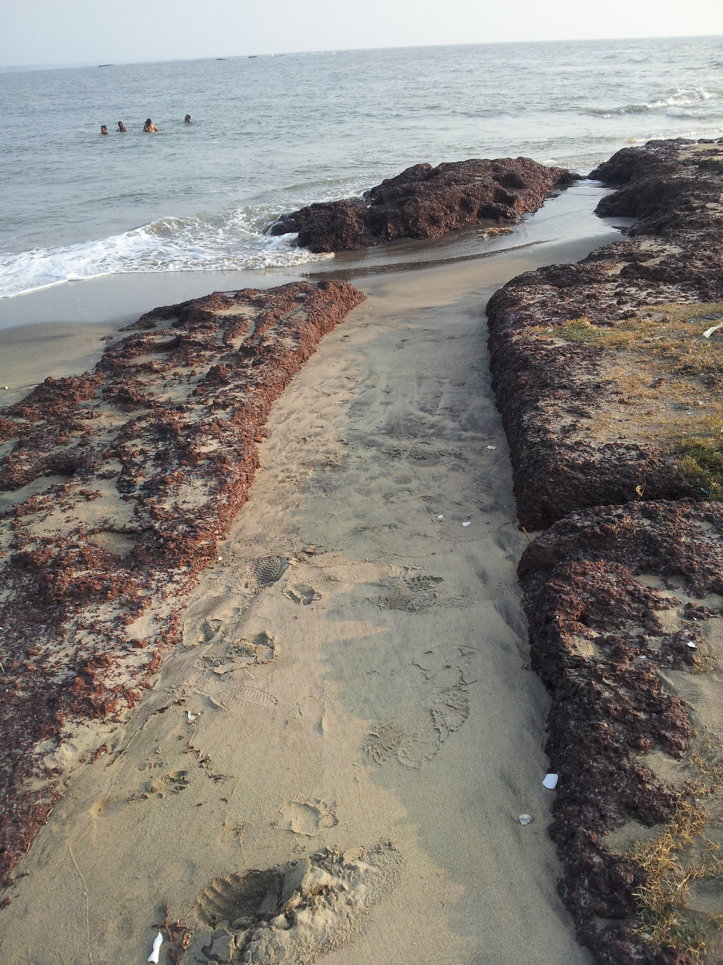 Particles or crashed fort named chaliyam fort